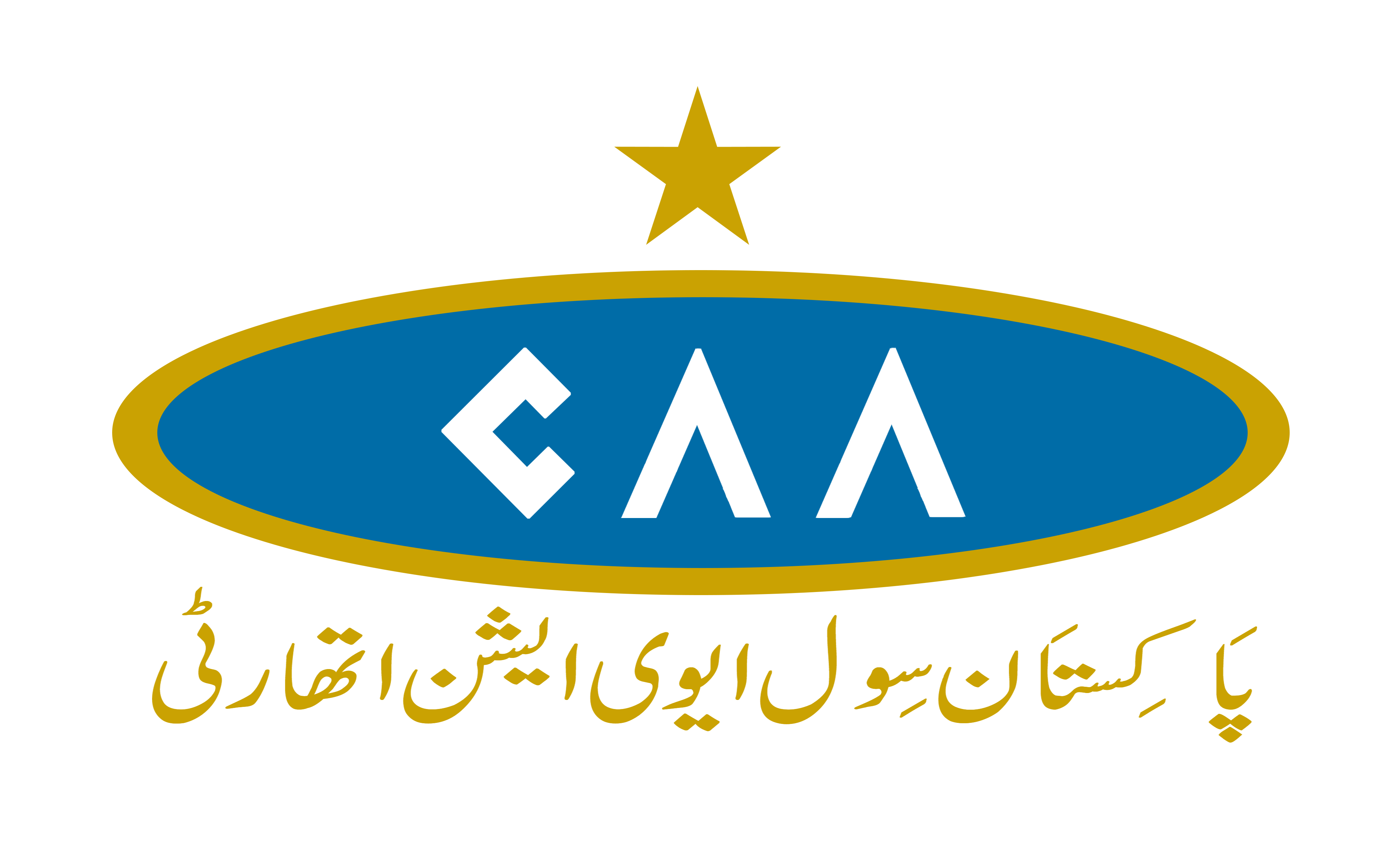 Pakistan Civil Aviation Authority (PCAA) Logo in High Quality.